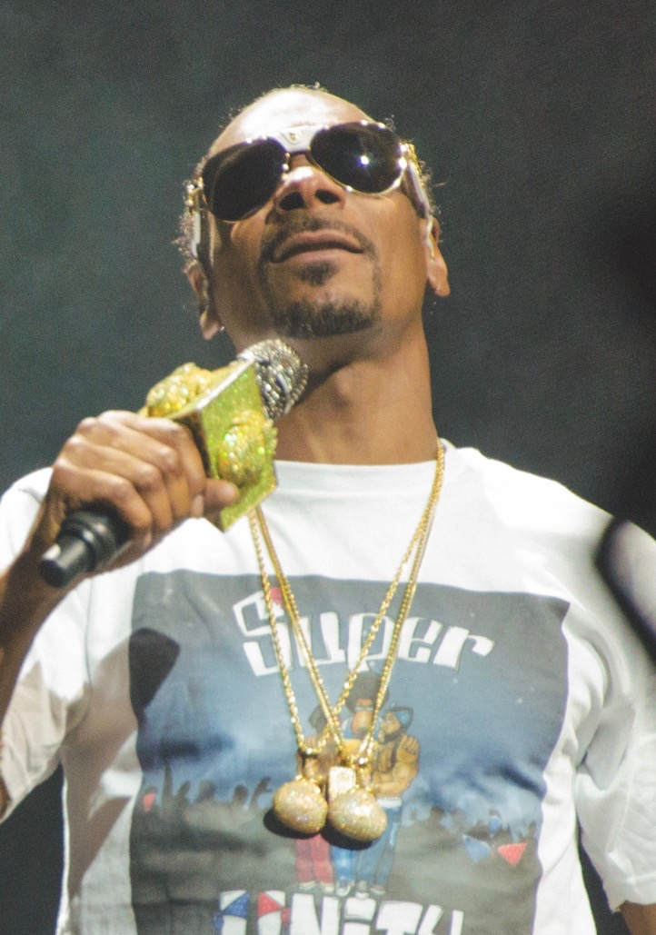 The High Road Summer Tour 2016 at the Molson Canadian Amphitheatre featuring Snoop Dogg, Wiz Khalifa, Jhené Aiko, Casey Veggies and Dj Drama. Photography by Charito Yap